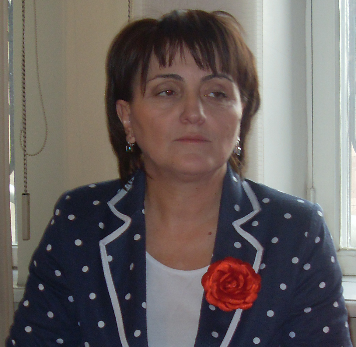 Margarit Yesayan - armenian political journalist, Deputy of the National Assembly